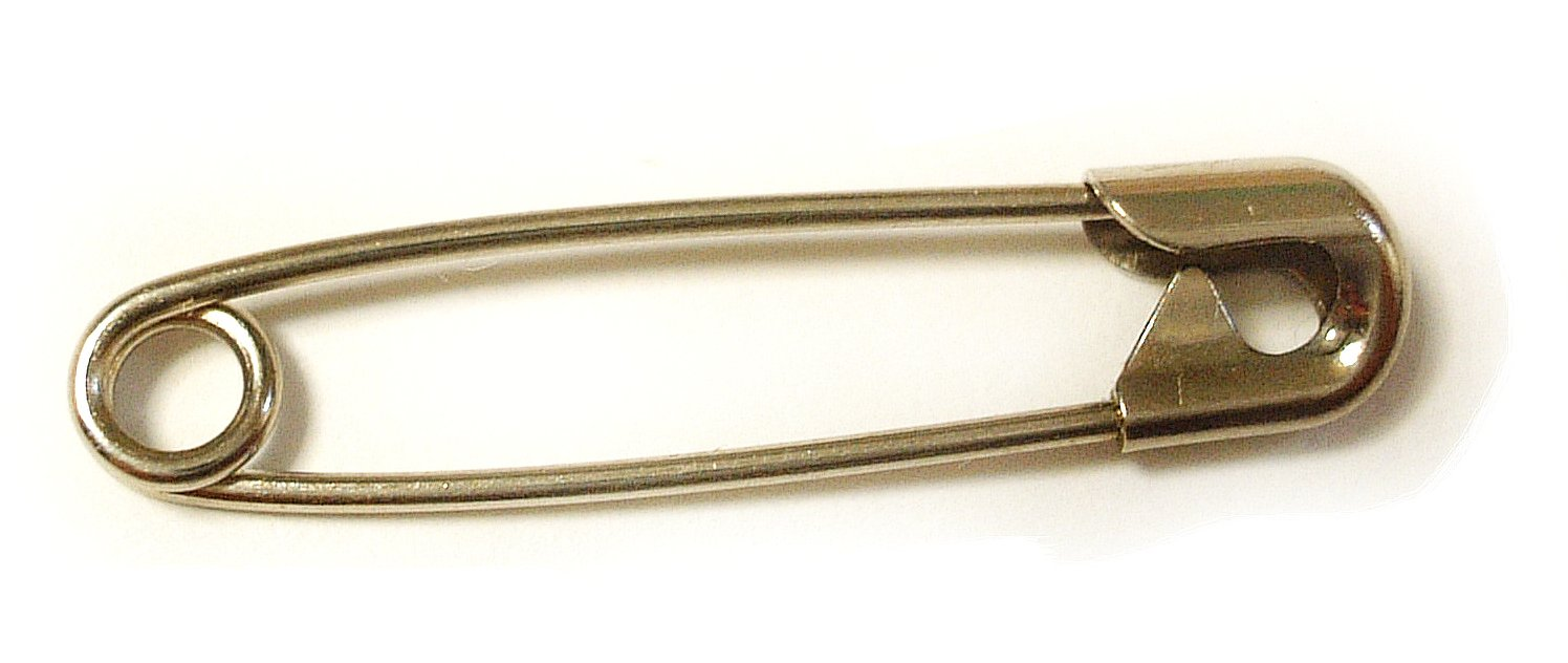 Closed safety pin, photo taken in Japan